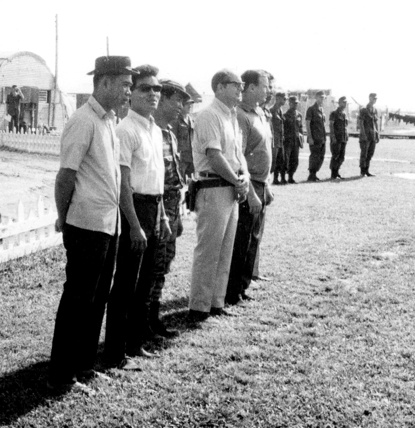 The Tay Ninh PRU members in South Vietnam, who were awarded Bronze Stars.